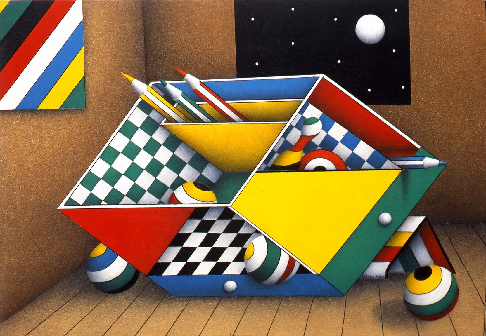 Photo of P.A. Breccia's painting "Art Box"